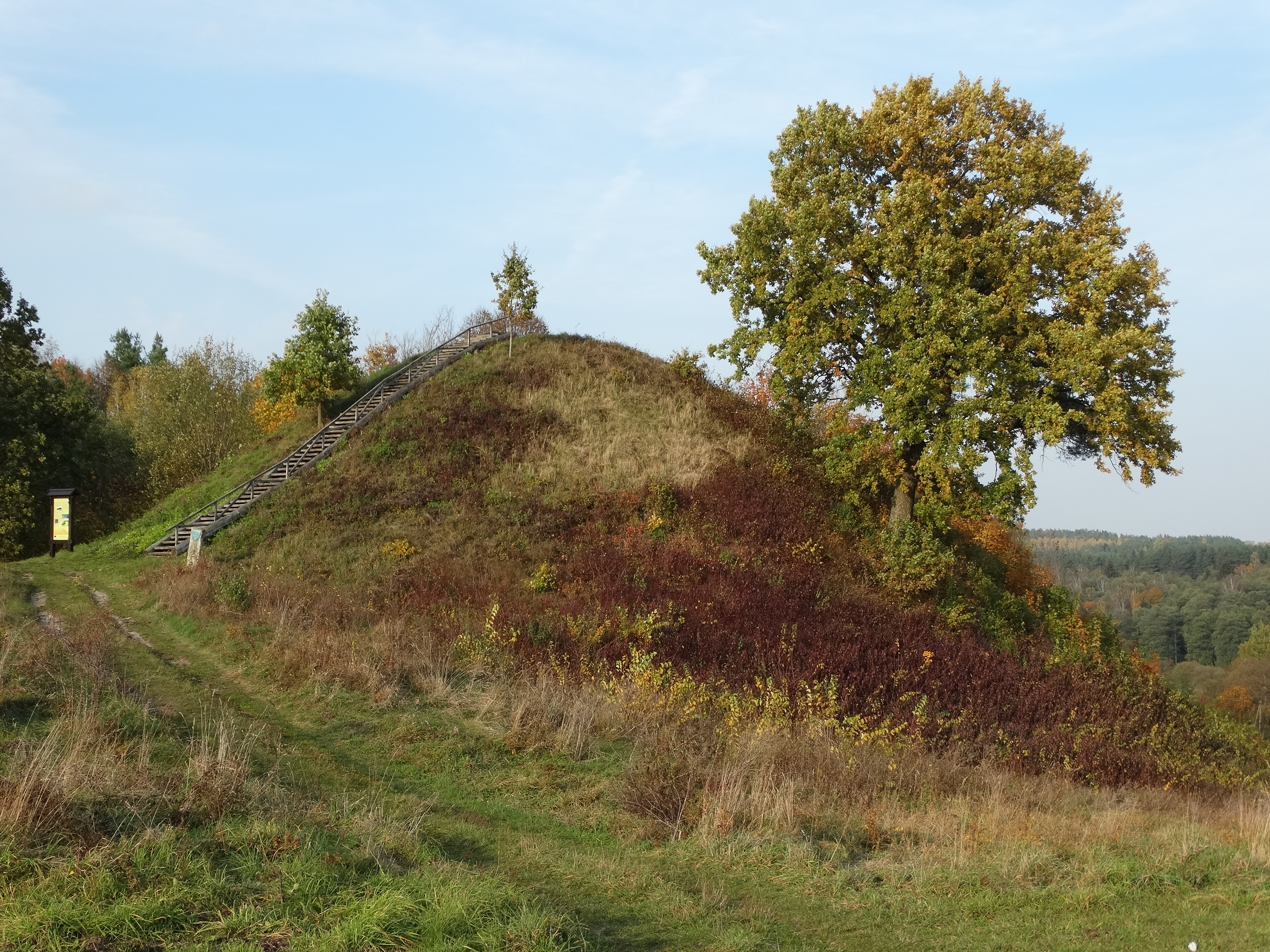 Hillfort, Rumbonys, Alytus district, Lithuania